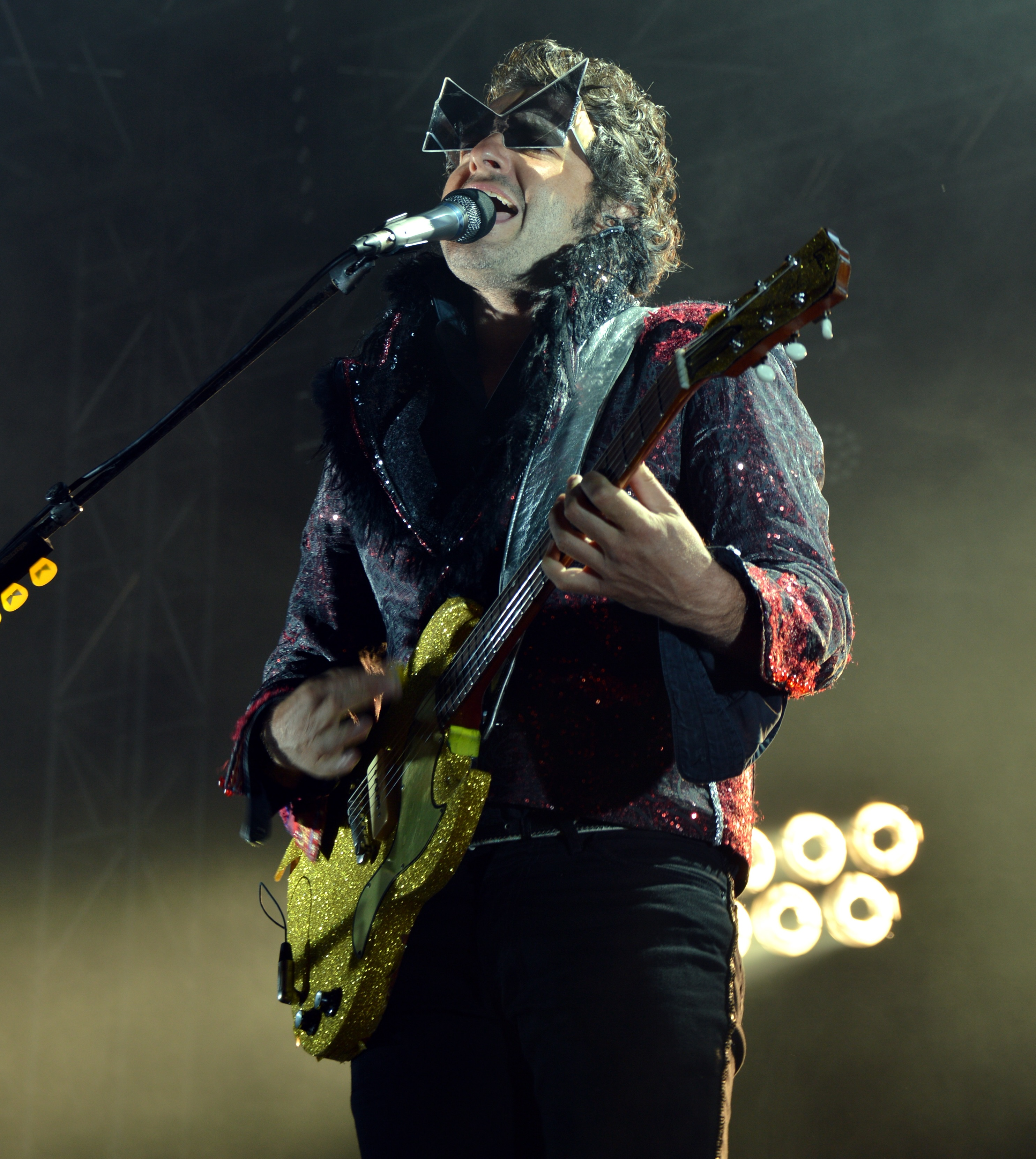 Matthieu Chedid performing in 2014